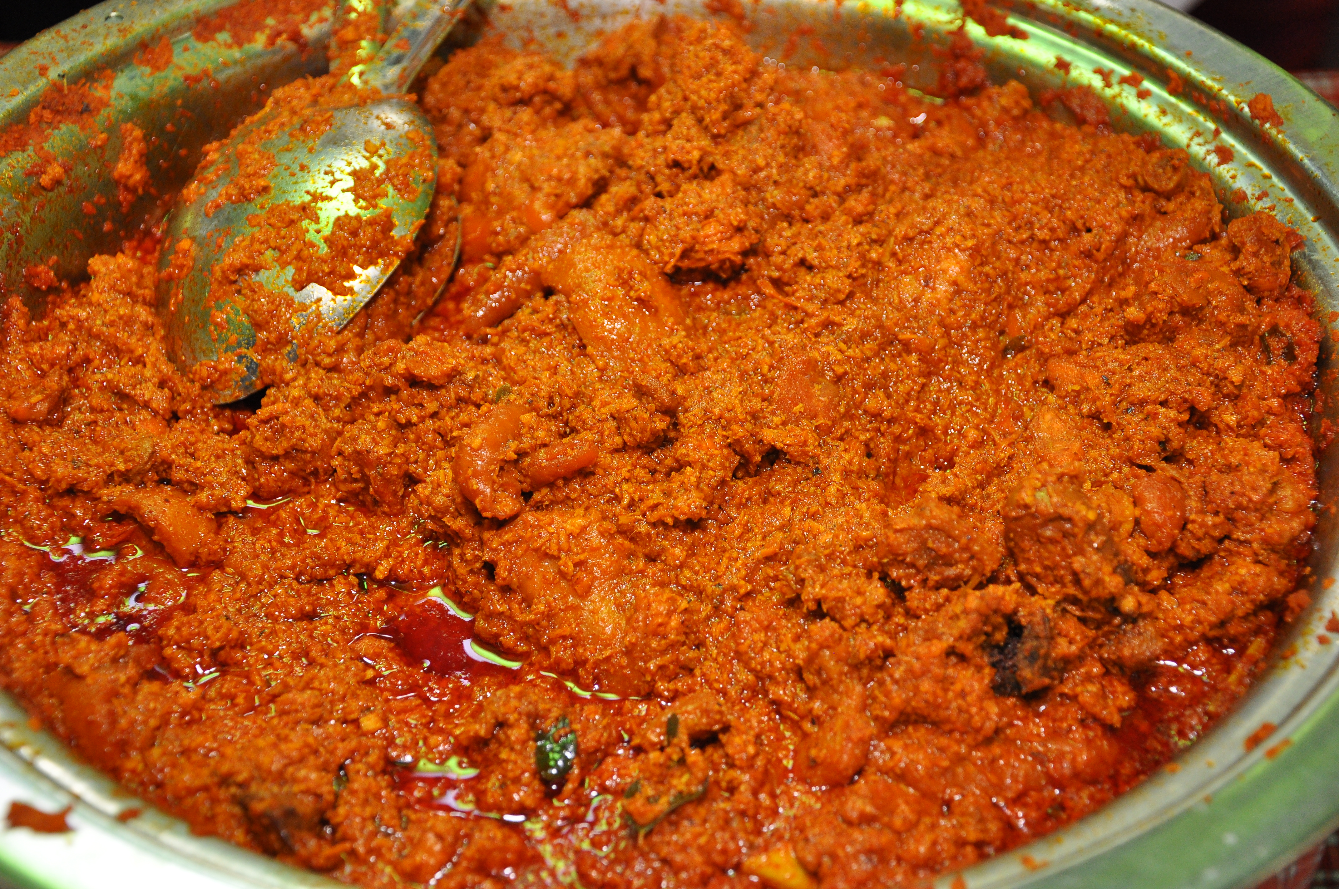 Chicken Sukka typical Mangalorean Cusine